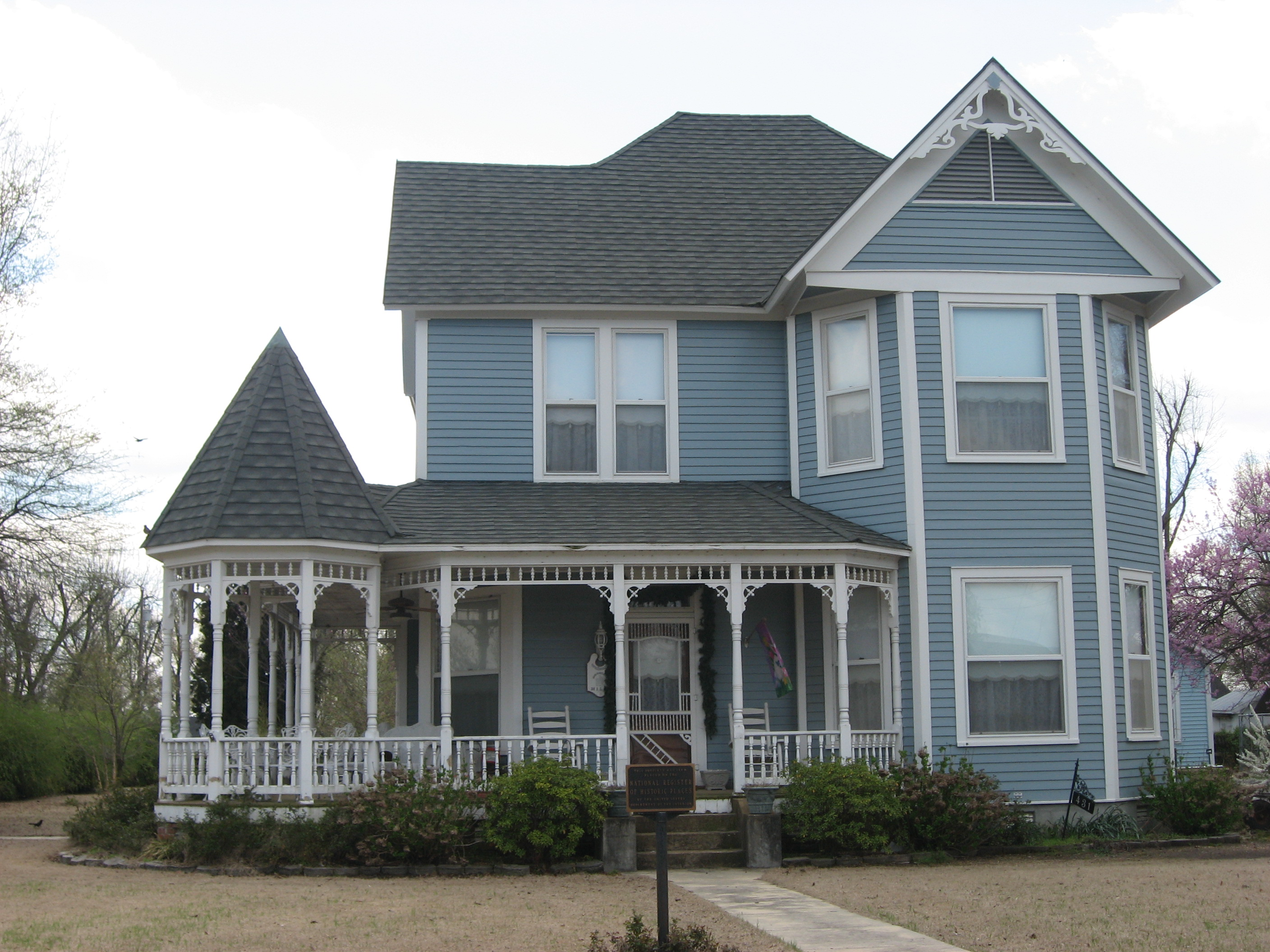 Front of the Caldwell-Hopson House, located at 431 Wynn Street in Tiptonville, Tennessee, United States. Built in 1891, it is listed on the National Register of Historic Places.